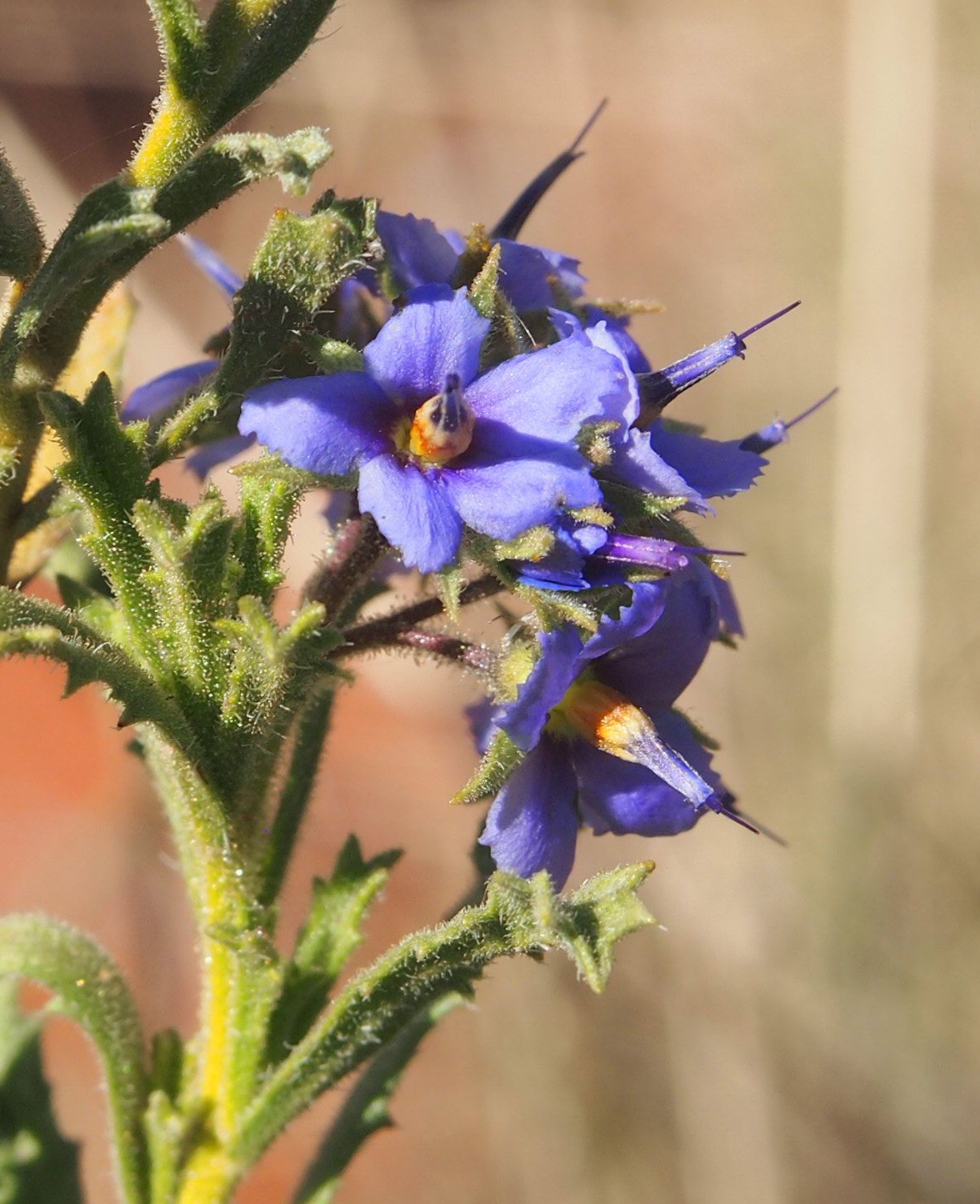 Halgania cyanea var. "Allambi Stn" flowers